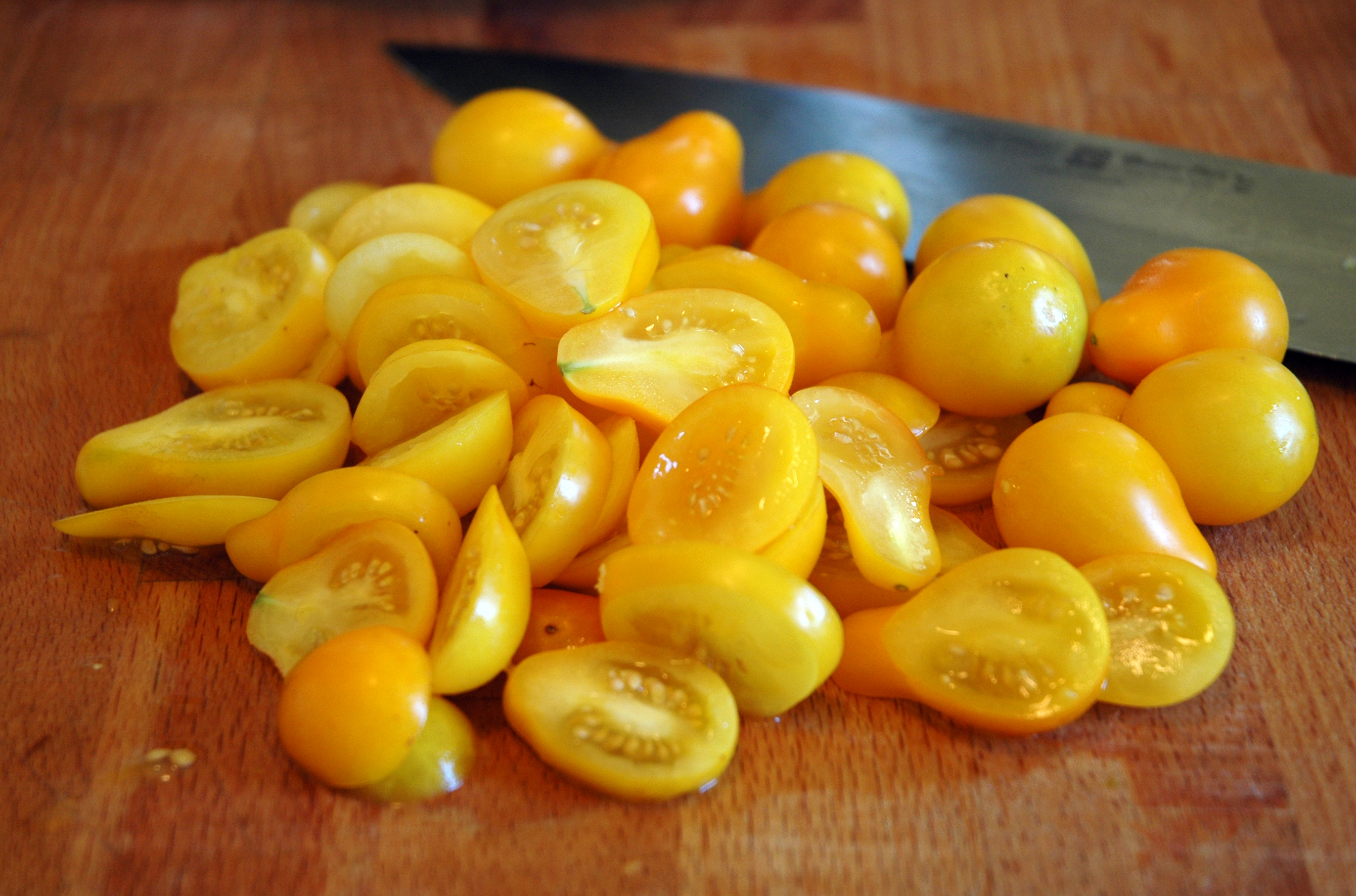 It's October and the Limony Pears are still producing.